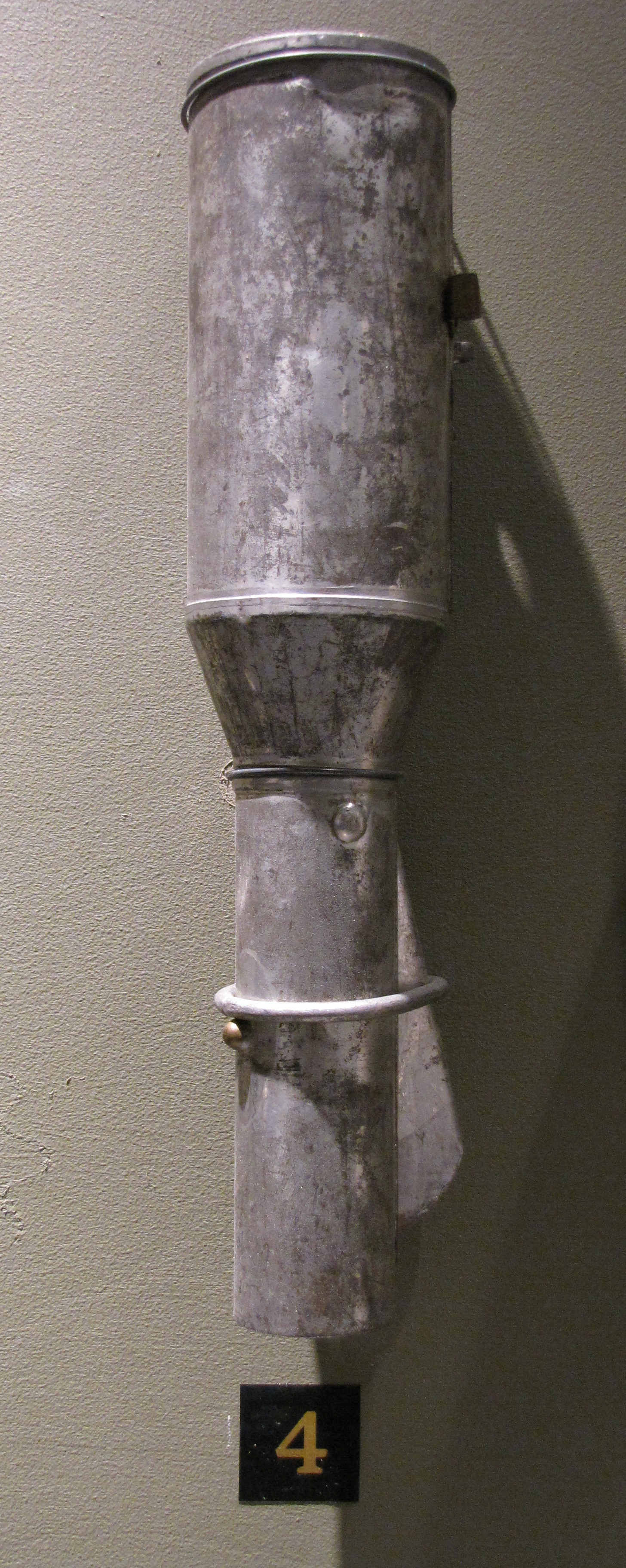 Russian model 1914 stick hand grenade, propably 1914/30 variant. Photographed in the "Winter War - 70 years" exhibition in the Military Museum of Finland.